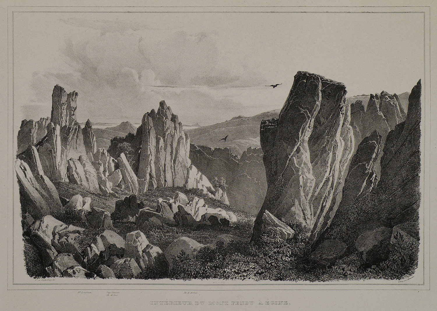 Otto Magnus Von Stackelberg. La Grèce. Vues pittoresques et topographiques, Paris, Chez I. F. D'Ostervald, 1834.